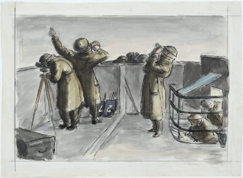 A.a. Command Post in Action image: A soldier in a greatcoat stands with his back to the viewer shouting into a megaphone. To his left another soldier leans over a rangefinder. To his right a soldier is looking upwards through binoculars. There are two other soldiers in a recess in the floor looking at some plans.